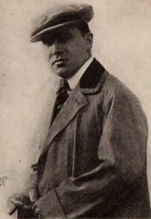 American film director Robert Thornby, on page 47 of the March 20, 1920 Exhibitors Herald.